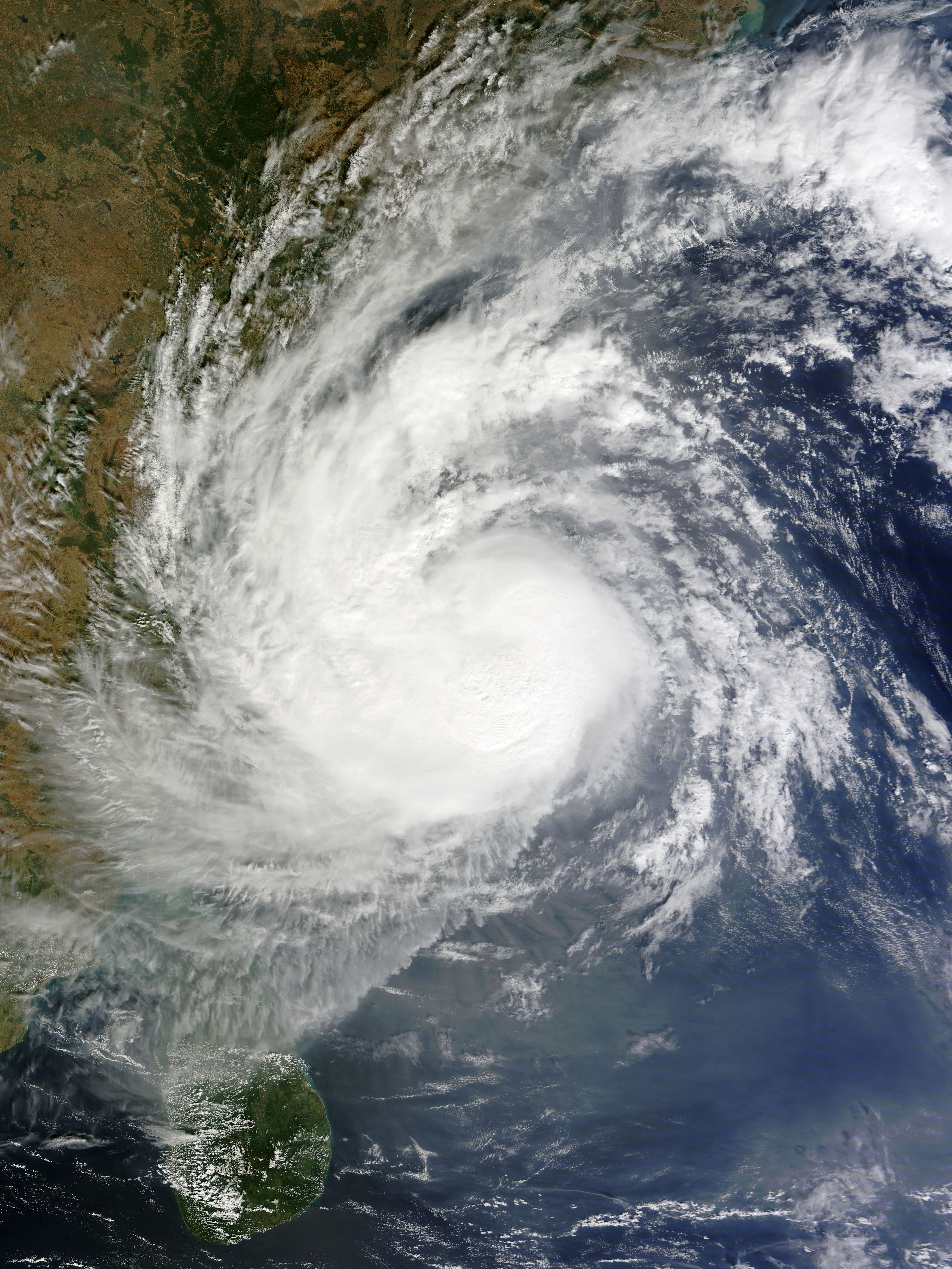 Very Severe Cyclonic Storm Vardah at peak intensity and approaching South India on 11 December 2016.